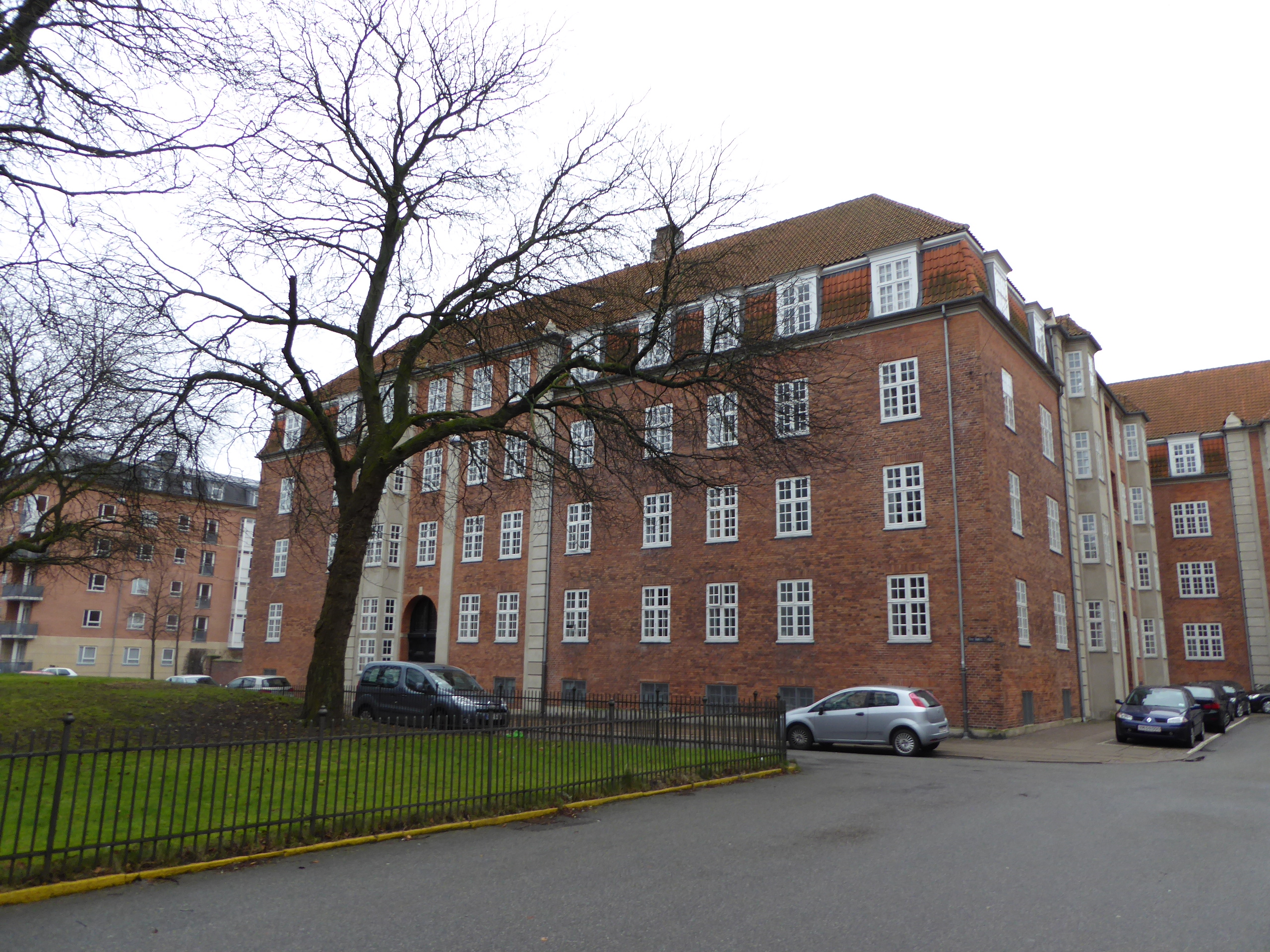 The square Ove Rodes Plads at Kanslergade in Østerbro in Copenhagen.